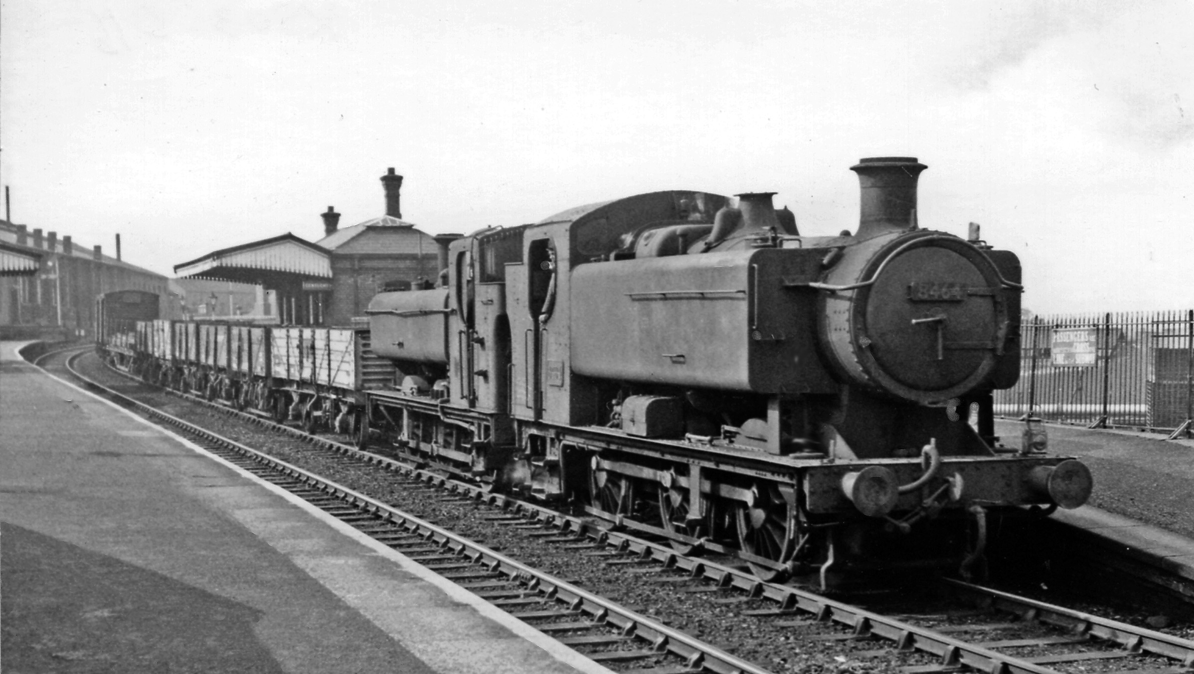 Dunstall Park station, with Up goods including a dead engine. View NW, towards Shrewsbury etc.: ex-GWR Birmingham - Chester main line. Behind '9400' class 0-6-0T No. 8464 (built 10/50, withdrawn 12/63) is an '8750' 0-6-0PT without numberplates, probably going for scrap.